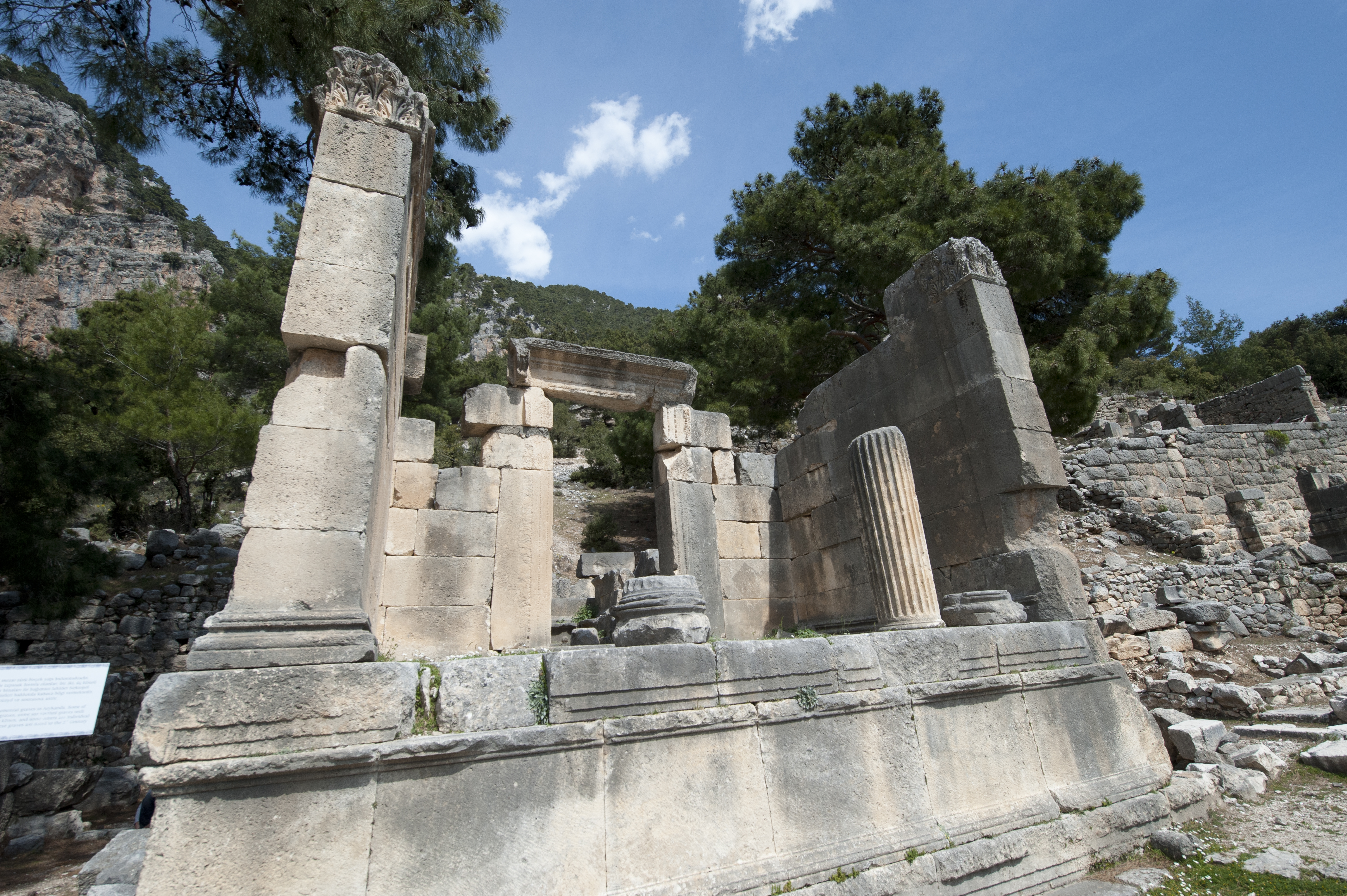 This is Tomb 1 and belonged to a man named Makedo. It sports Greek architectural features and the sarcophagus and protective lions inside are still intact. It was used from the 1st to 3rd century AD.